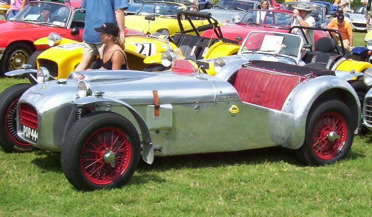 I took this picture at a local Lotus Owners Meeting.Tom Bartlett 19:43, 16 January 2007 (UTC)